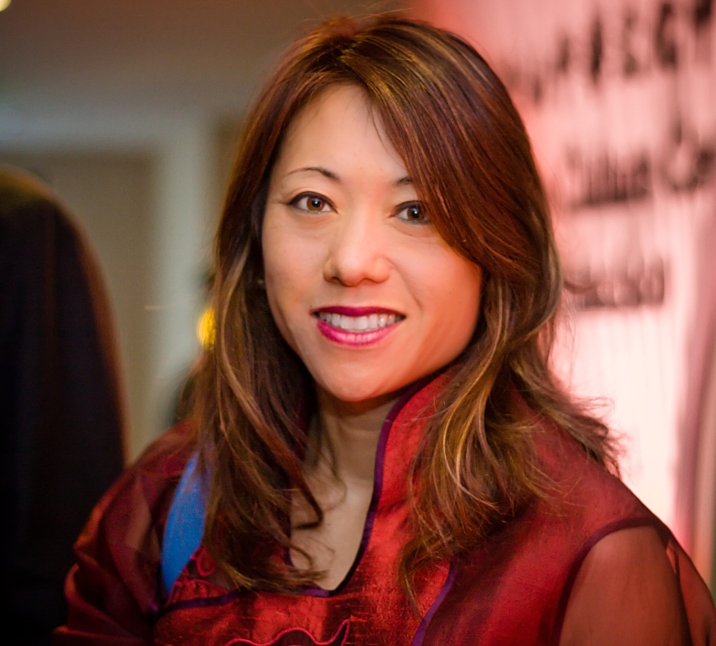 California State Assemblywoman Fiona Ma